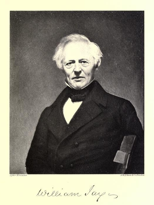 William Jay by Anthony Henry Wenzler. Oil on canvas, 75.5cm x 62.7cm (29 3/4" x 24 11/16". Smithsonian NPG, Catalog of American Portraits; Object number: JJ1958.DUP24. Current Owner: John Jay Homestead State Historic Site. From Tuckerman, Bayard, 1855-1923. William Jay and the constitutional movement for the abolition of slavery, by Bayard Tuckerman, with a preface by John Jay. New-York: Dodd, Mead & Co., 1894, p. 134